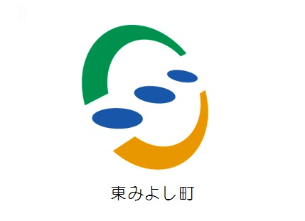 Flag of Higashimiyoshi Tokushima